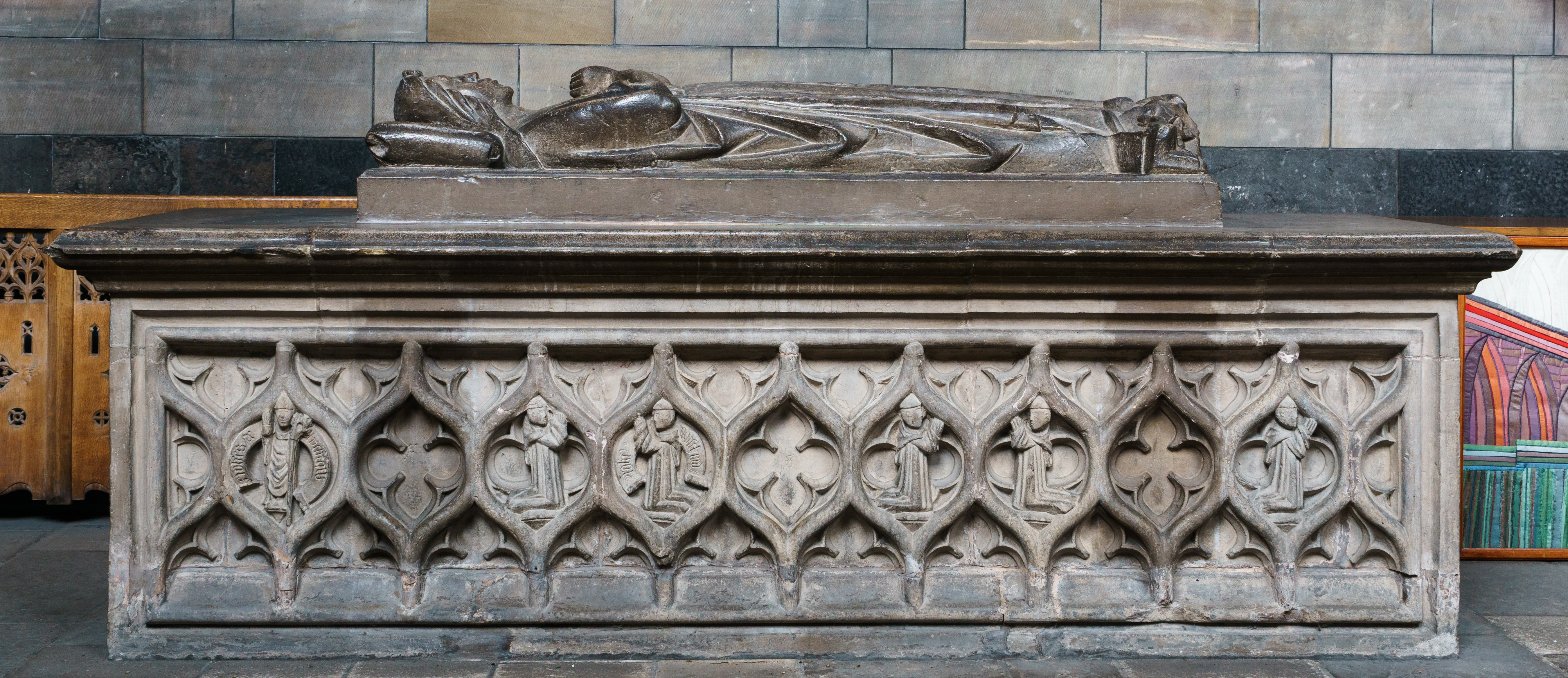 This tomb-like memorial in Paisley Abbey marks the probable site of the last resting place of Marjory Bruce.